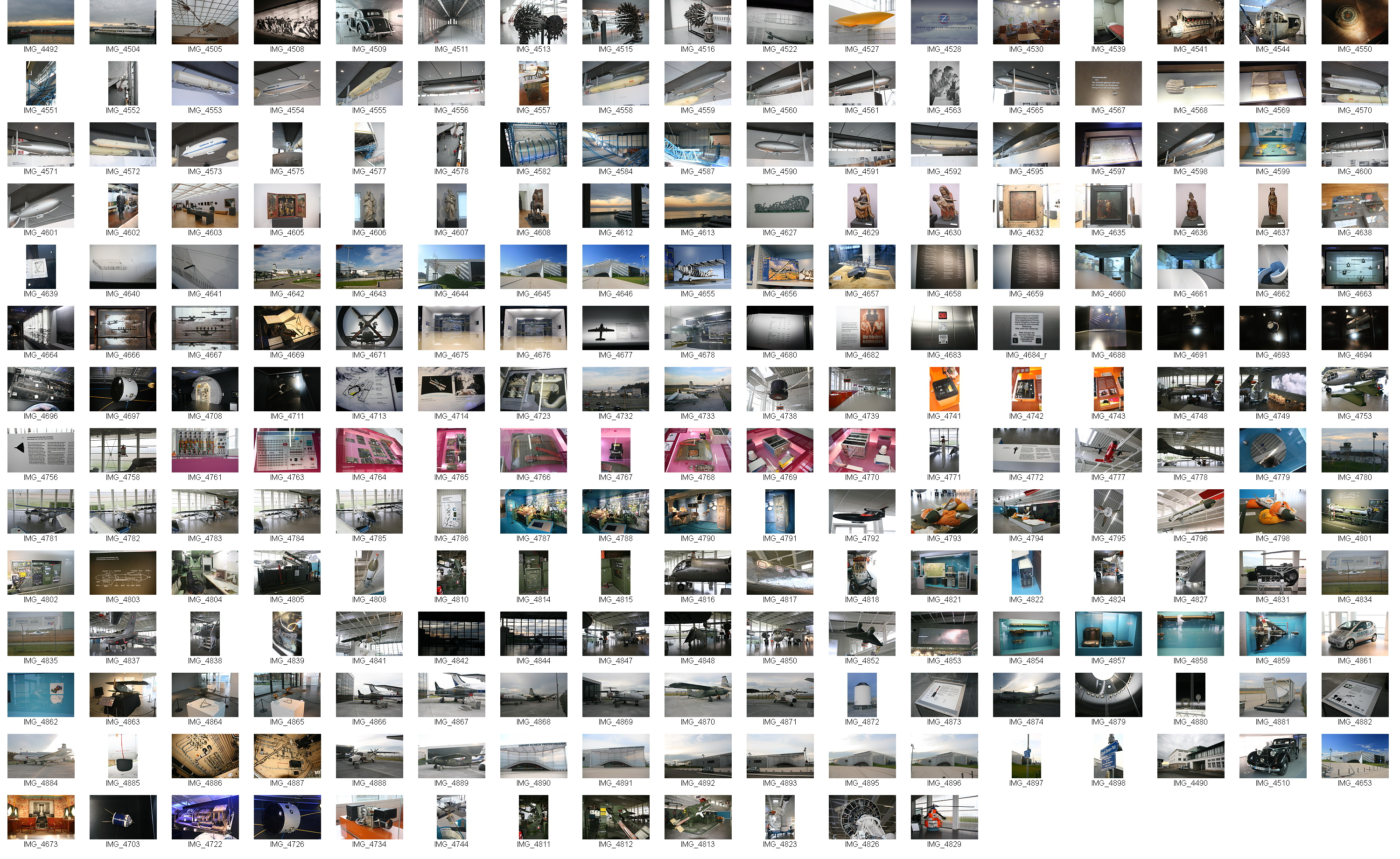 Overview of the taken Images at the Wikipedia Germany Bodensee Meetup